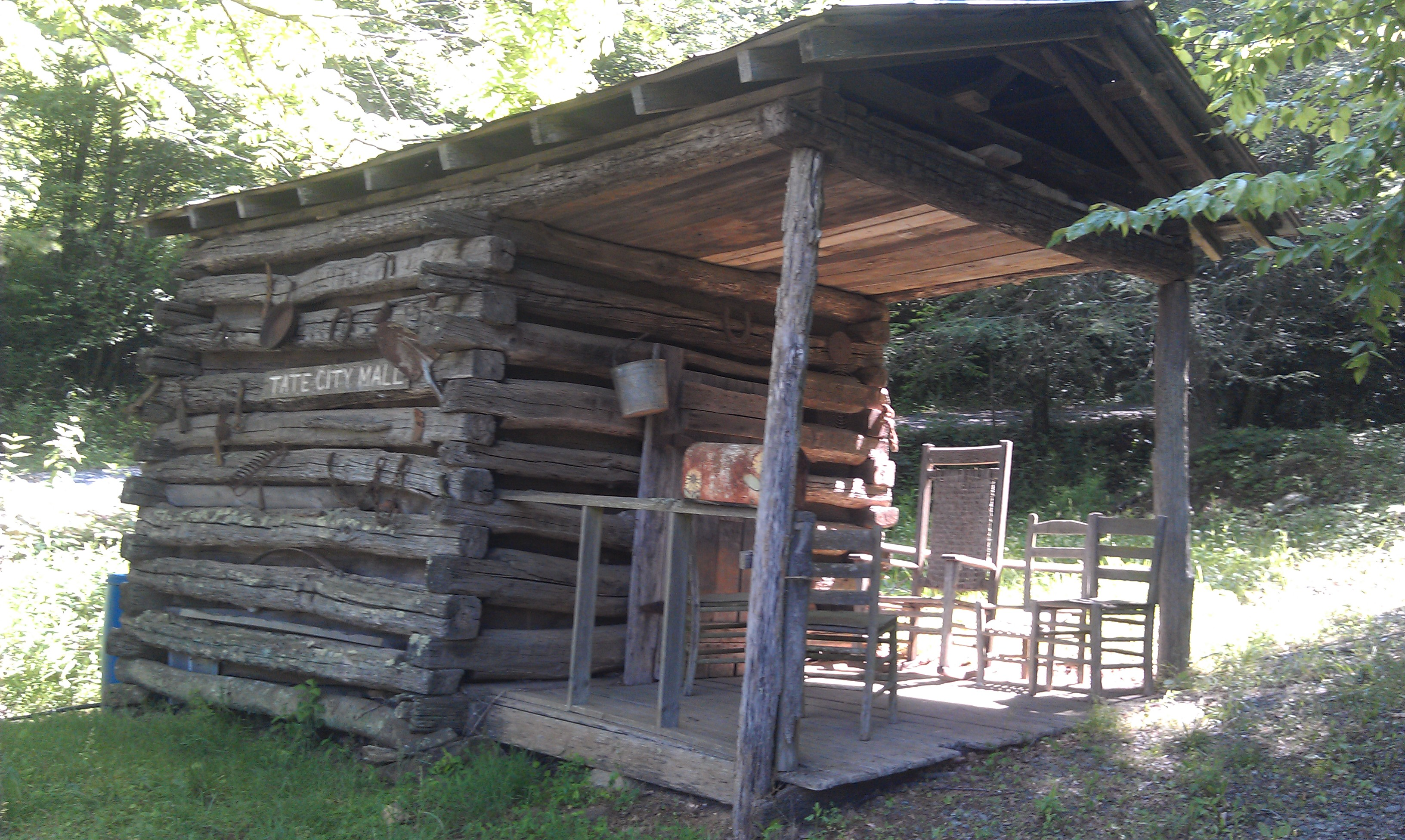 Antique shed in Tate City, Georgia in Towns County, with sign stating Tate City Mall. The shed is intended to be humorous as the town is too small to have even a store.